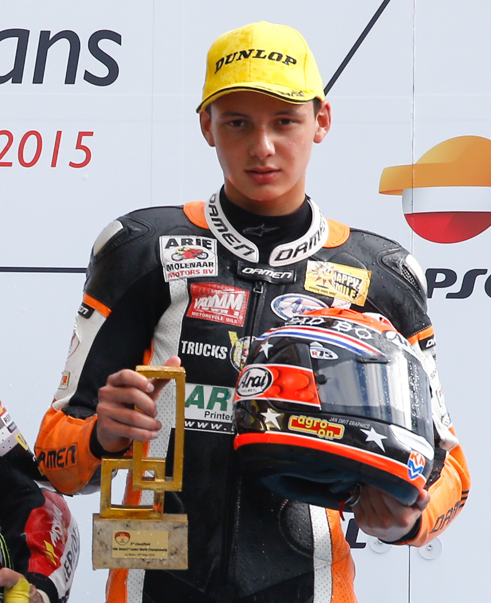 Bo Bendsneyder on the podium of the 2015 CEV Moto3 Le Mans race.